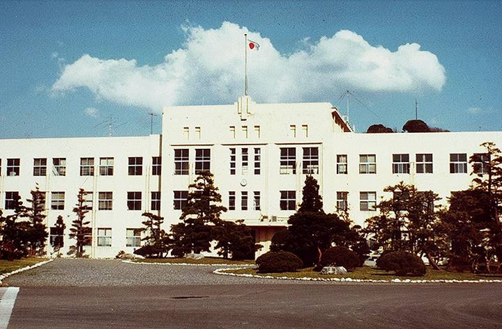 JGSDF Signal school